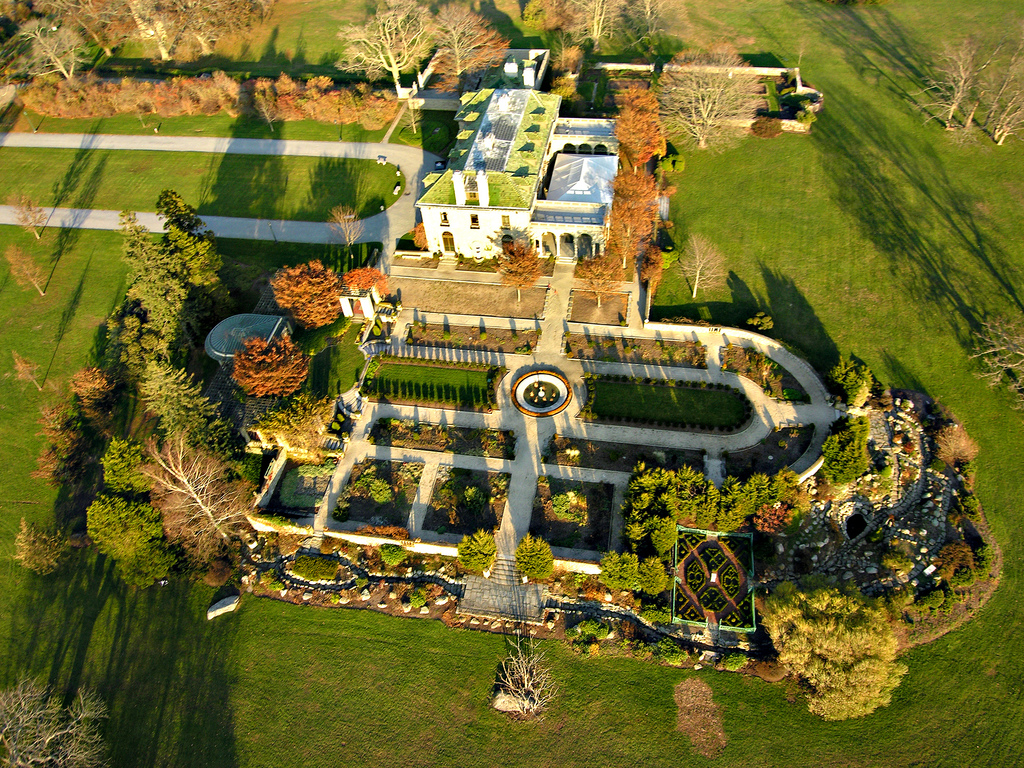 Kite aerial photo over the Harkness mansion at the Harkness Memorial State Park in Waterford, Connecticut.